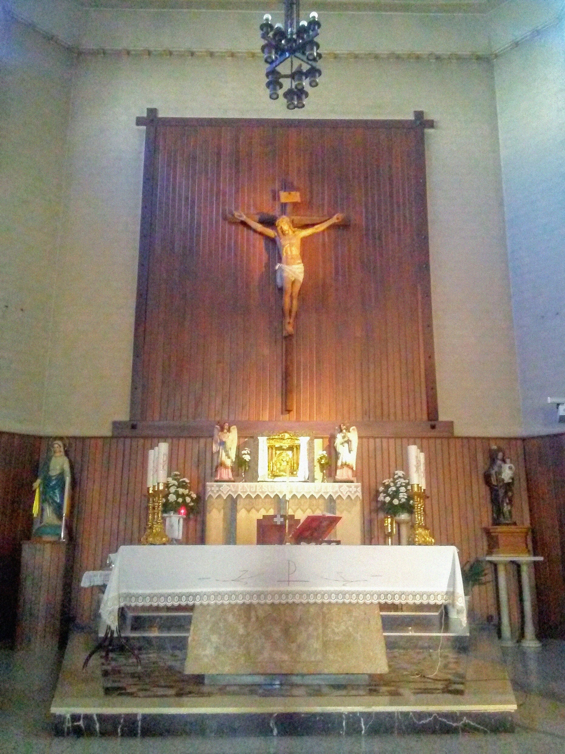 Parroquia Santa Teresita (Ourense)